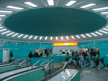 renewed Tsereteli M Station Tbilisi 06 - part of the tbilisi metro 2006 renovation process